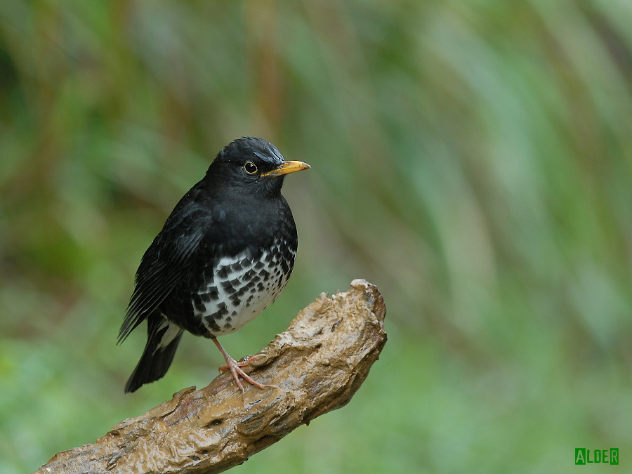 taken at Yehliu, Taipei County, Taiwan.